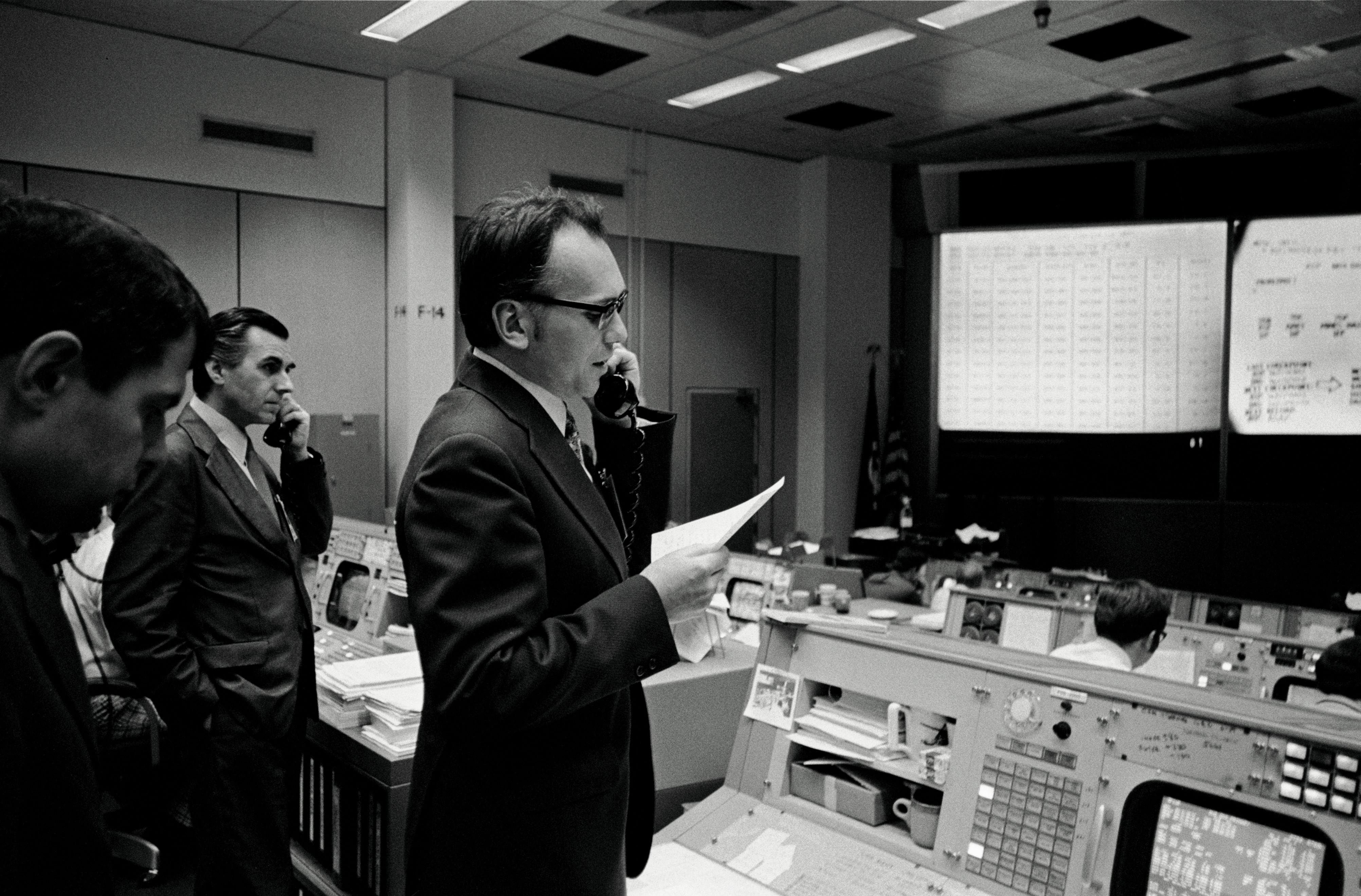 Dr. Lubos Kohoutek, discoverer of the Comet Kohoutek, is seen in the Mission Operations Control Room in the Mission Control Center during a visit to JSC. He is talking over a radio-telephone with the Skylab 4 crewmen in the Skylab space station in Earth orbit. Professor Kohoutek, a well-known Czechoslovakian astronomer who works at the Hamburg Observatory in West Germany, discussed the comet with Astronauts Gerald P. Carr, Edward G. Gibson, and William R. Pogue. Dr. Zdenek Sekania, who accompanied Dr. Kohoutek on the visit to JSC, is on the telephone in the left background. Dr. Sekania is with the Smithsonian Observatory in Cambridge, Massachusetts.